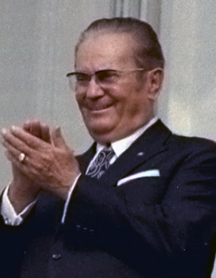 Josip Broz Tito in 1971 during a visit to the Nixon whitehouse.